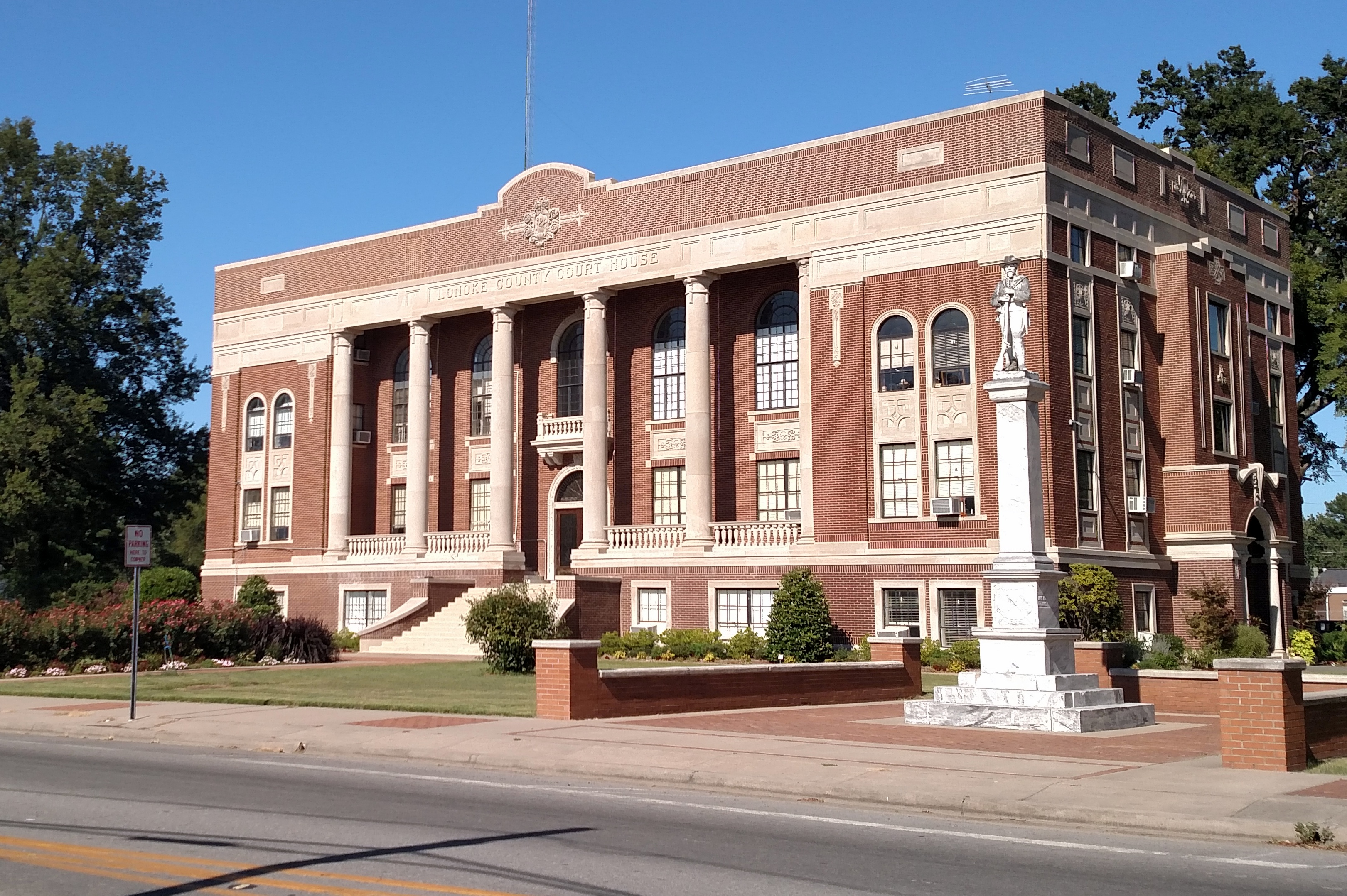 LONOKE COUNTY COURTHOUSE N. Center St. 1928 Neoclassical design by Little Rock architect H. Ray Burks